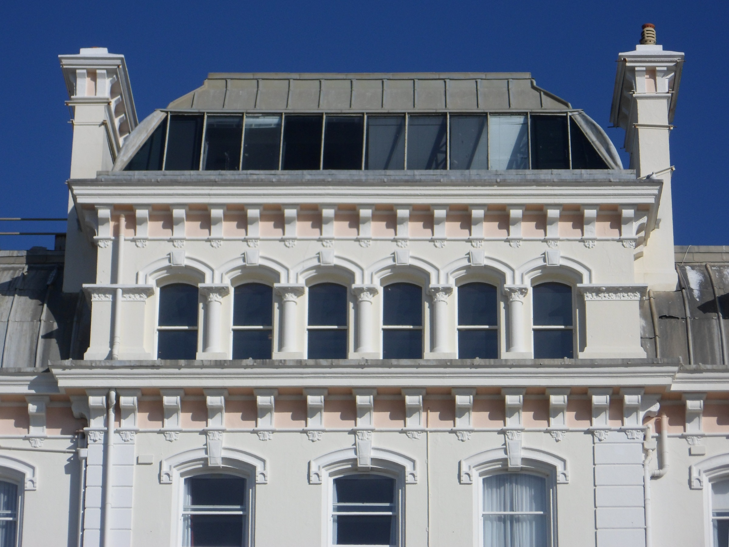 Norfolk Hotel, 149 Kings Road, Brighton, City of Brighton and Hove, England. At the time of the photo, it is owned by Mercure and is branded Mercure Brighton Seafront Hotel. This view shows a closeup of the elaborate roof. Listed at Grade II by English Heritage (NHLE Code 1381642)